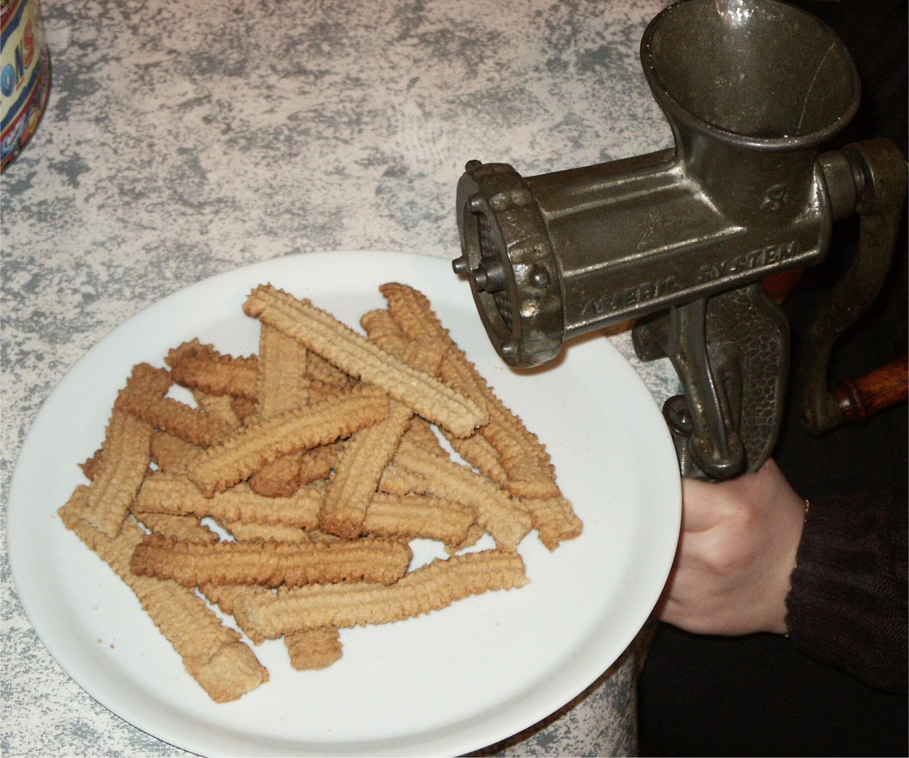 Spritz: cookies traditionally prepared for Christmas in eastern France. The photo also shows an old Meat grinder that is used to shape the cookies.